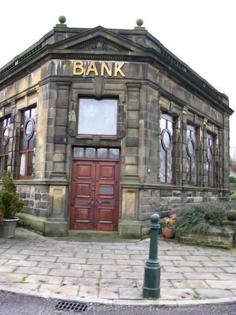 Old Bank, Chapeltown